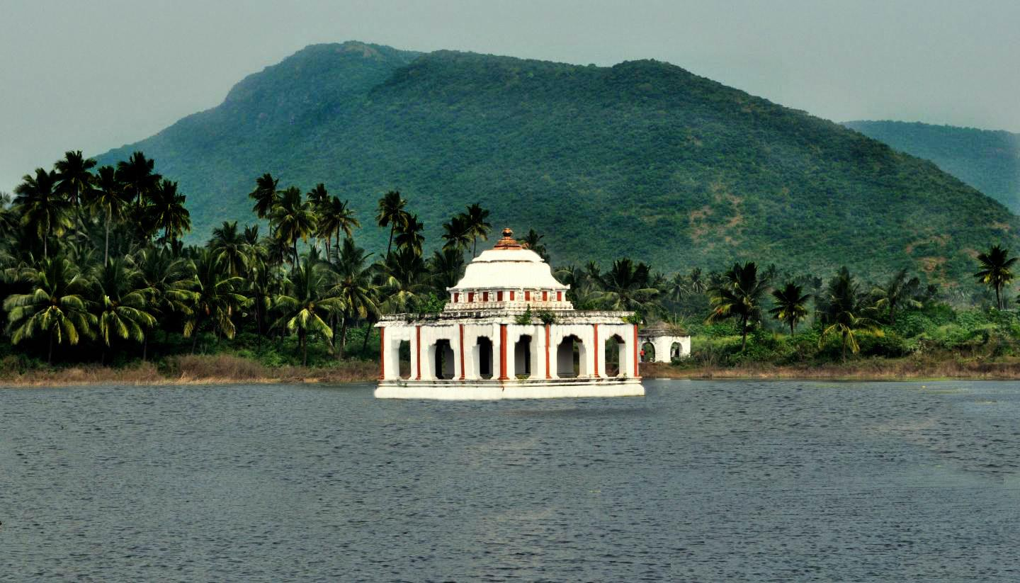 The sacred Pushkarini bathing tank believed to have medicinal properties.